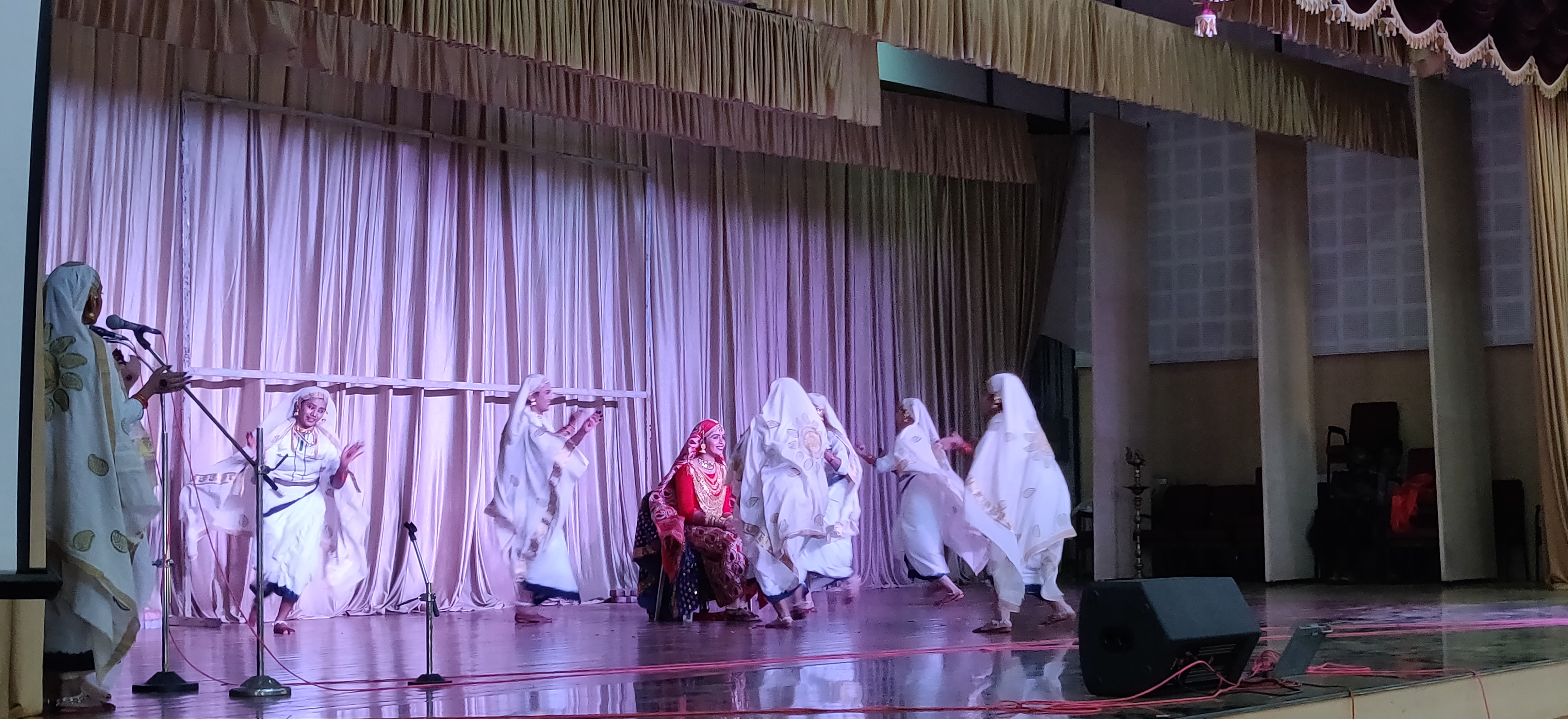 Oppana dance at Vidya Academy of Science and Technology, Thrissur, Kerala, India